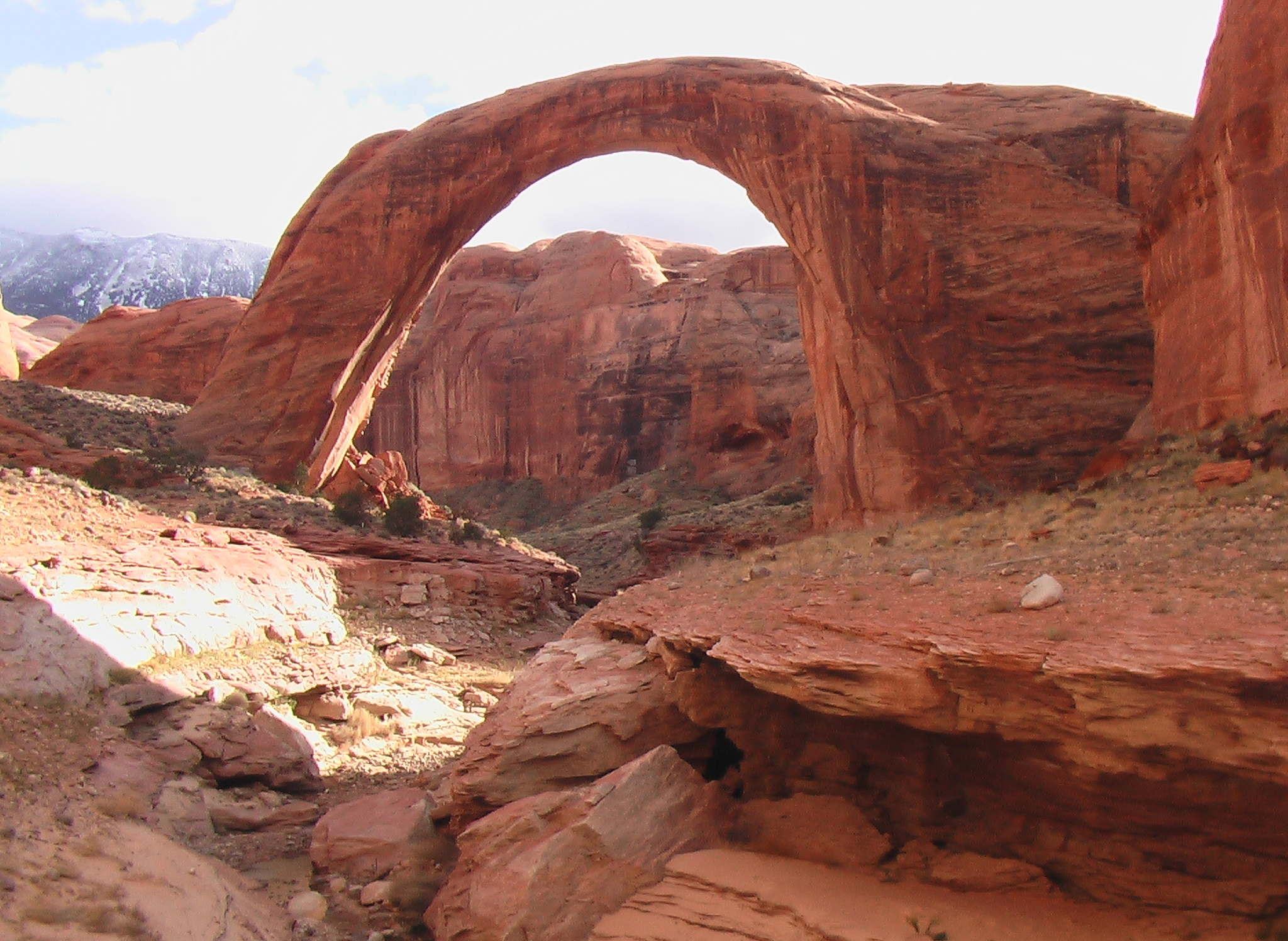 The Rainbow Bridge National Monument